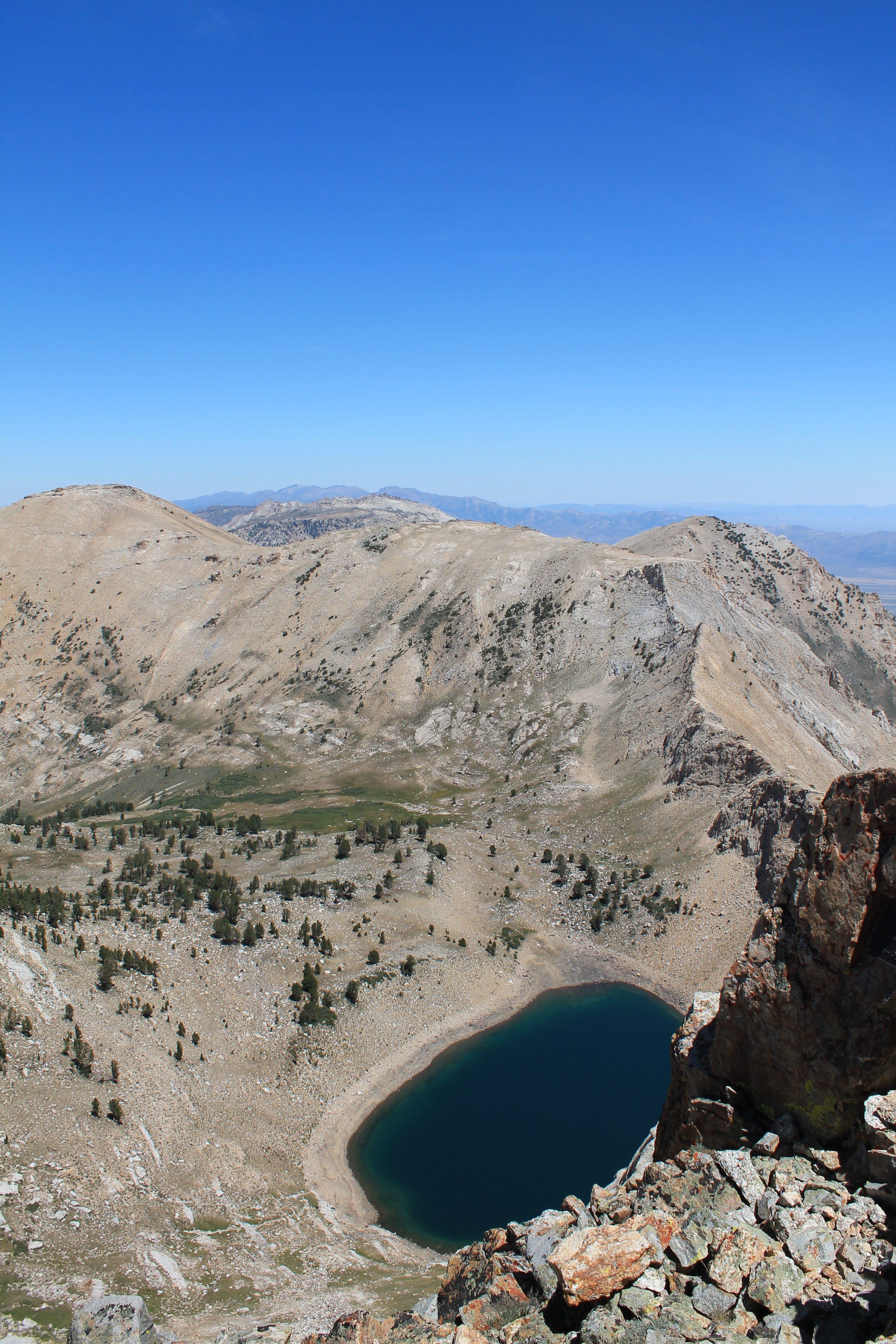 Verdi Leak in The Ruby Mountains